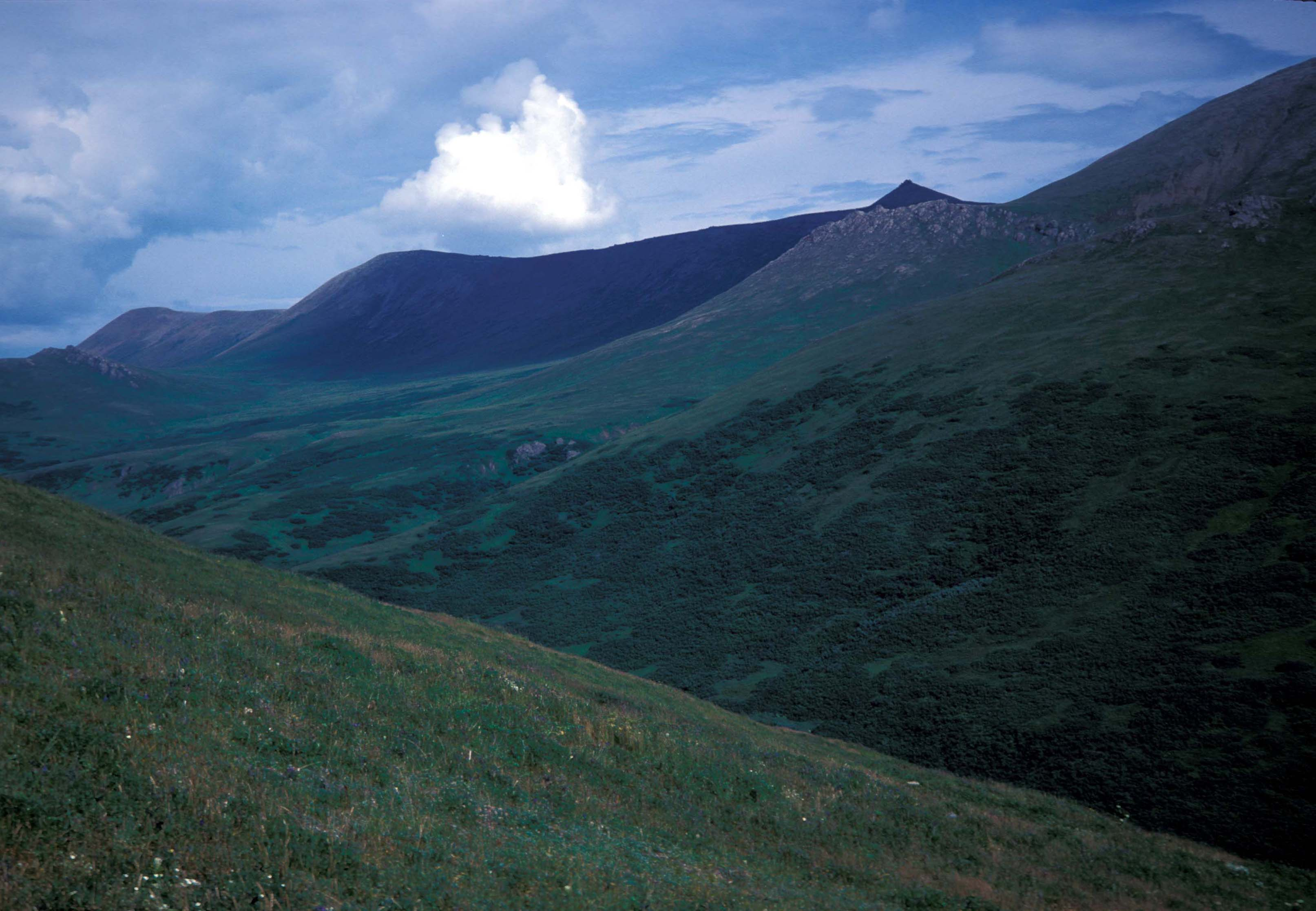 Hagemeister Island , south end 1983 [1]